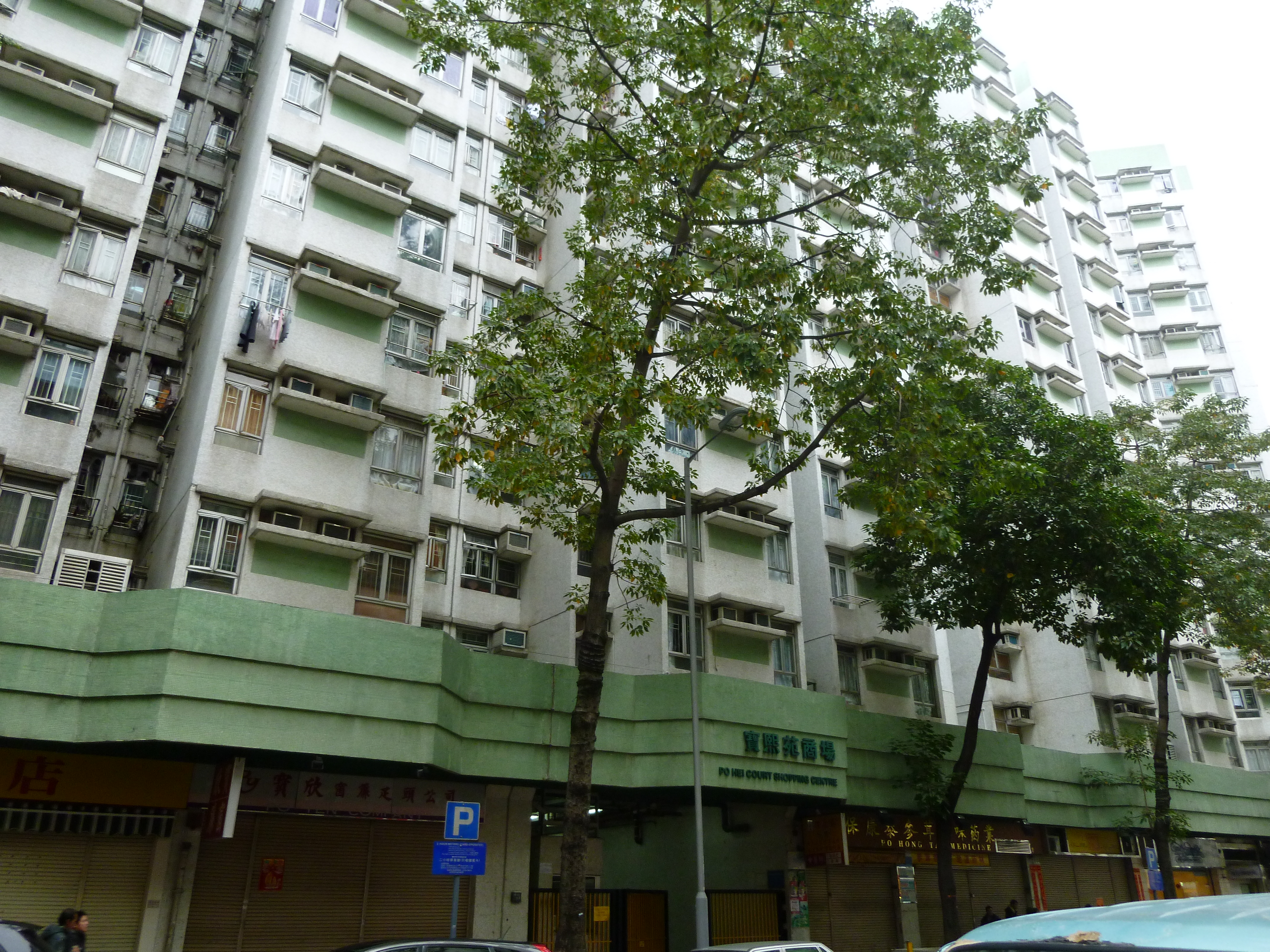 Po Hei Court (Cheung Sha Wan, Kowloon, Hong Kong)